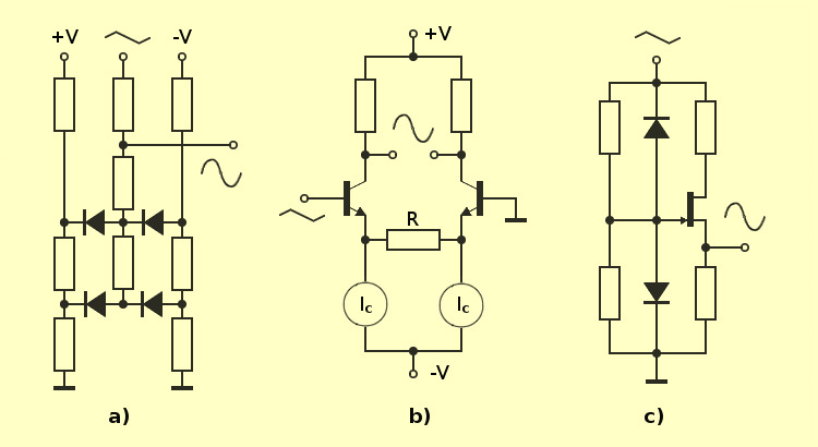 Converter